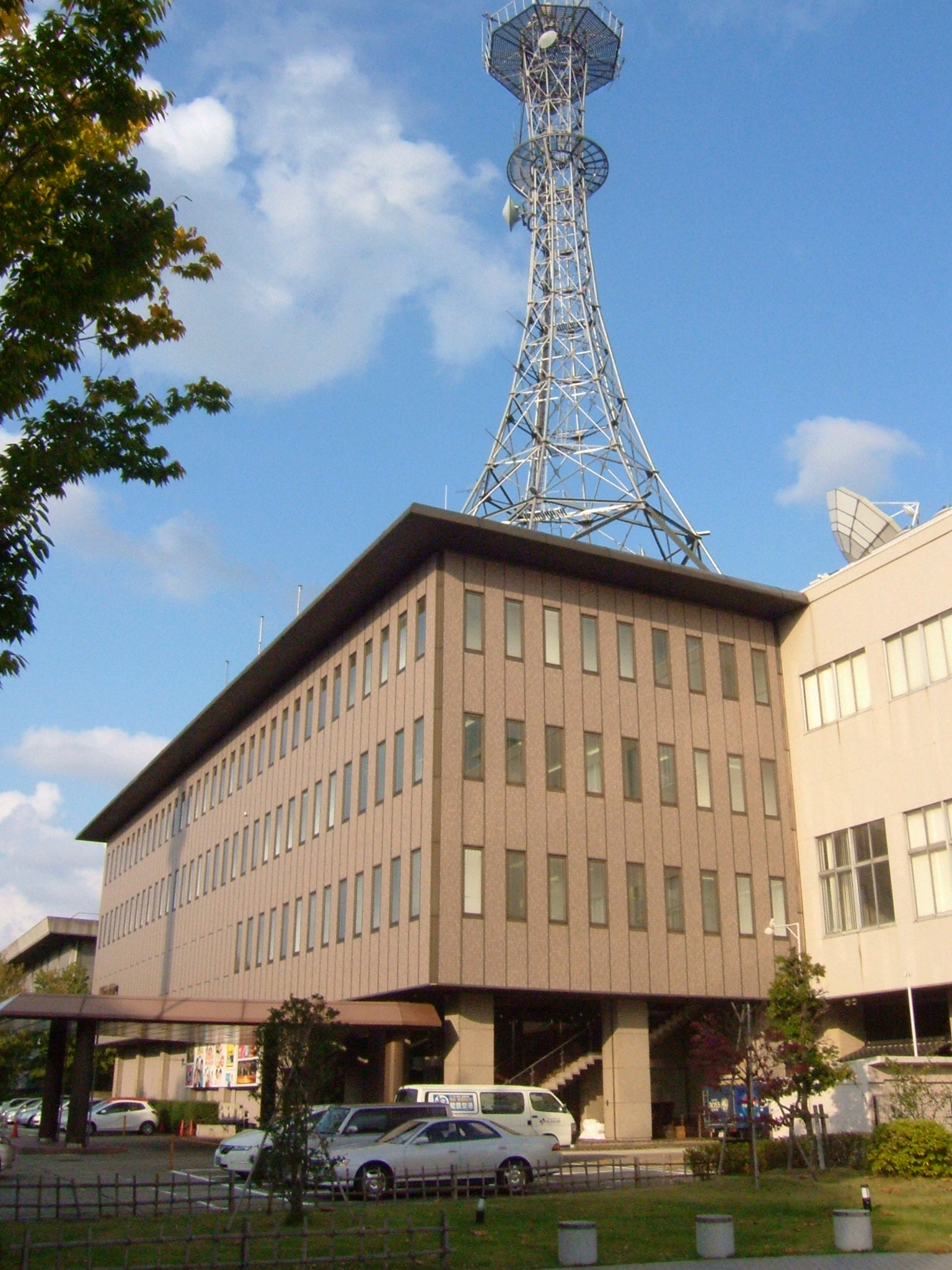 Hokuriku Broadcasting Corporation (Kanazawa, Ishikawa, JAPAN)